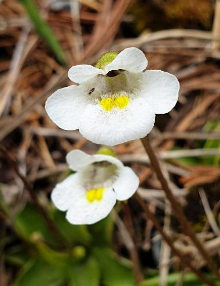 Anther Smut Fungi Microbotryum alpinum on Pinguicula alpina (Est-Switzerland)